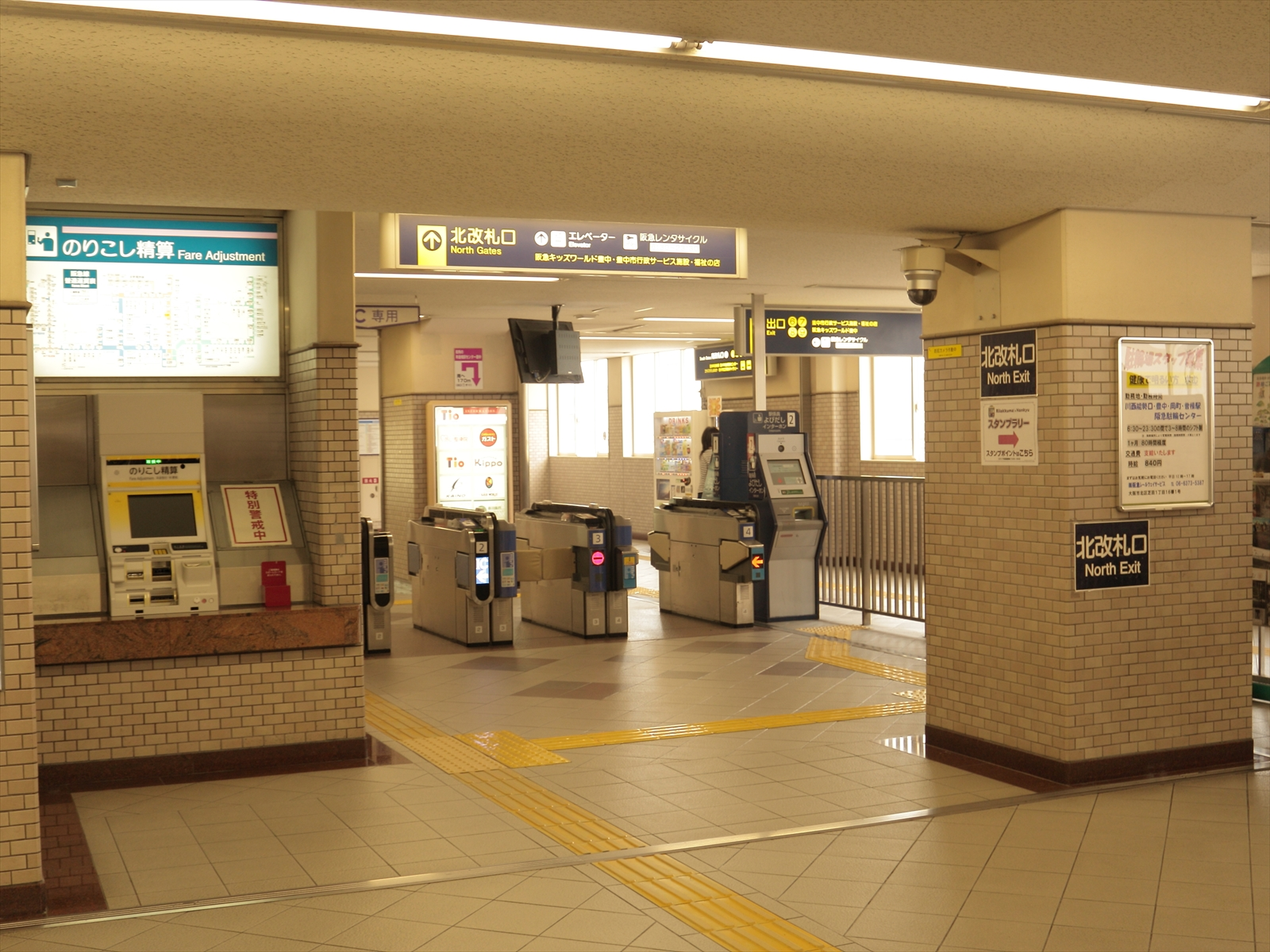 North Gates from Toyonaka Station.